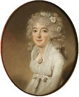 Catharina Hodshon was the first owner of the Hodshon house. It hangs in the same building, which is home to the Dutch Society for Science, in Haarlem.